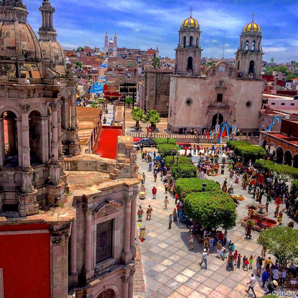 plaza Alfredo R Plasencia